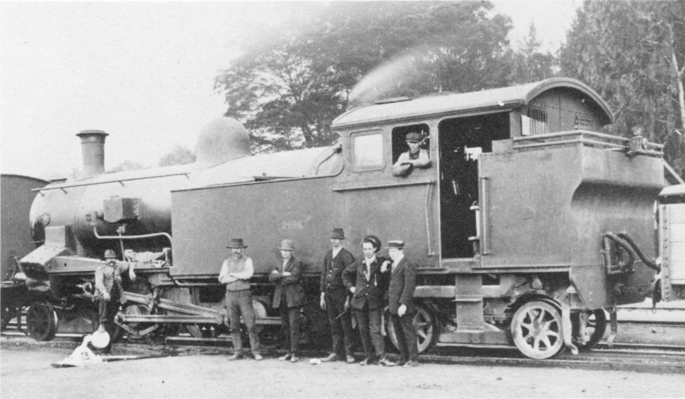 Central South African Railways 4-6-4T rack locomotive no. 995